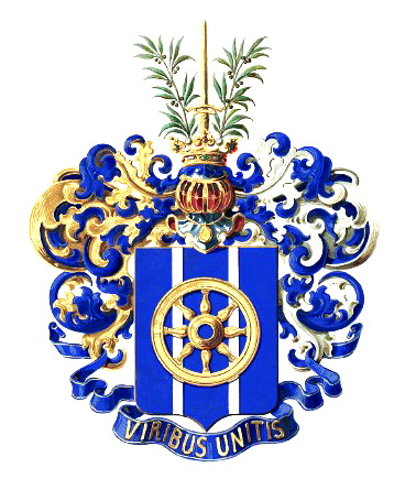 Coat of arms of the family Subotich